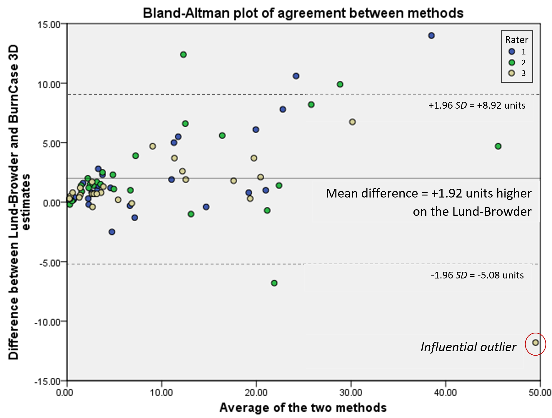 Bland-Altman plots are a method for looking for patterns of agreement or disagreement when several raters try to measure the same thing